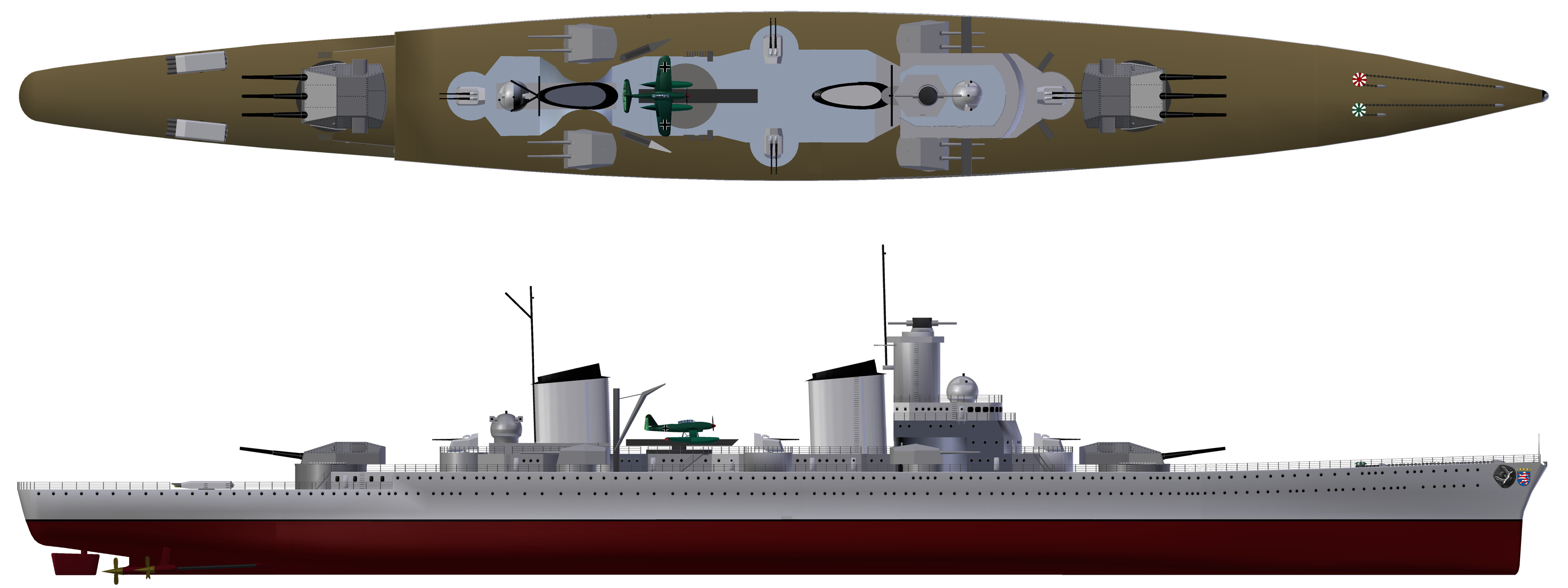 A logical conjectural design of the D Class Armored cruiser ship Ersatz Hessen. This would have been the 2nd of 2 ships that Germany planned to build in 1933. This Illustration was made by me in Blender as a 3D model and 2D mapped in Gimp for a Book that Is being written about the subject of Plan Z ships, and alternate ships that Germany never built.